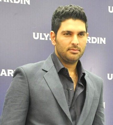 Yuvraj Singh appointed as Ulysse Nardin watch brand ambassadorjpg